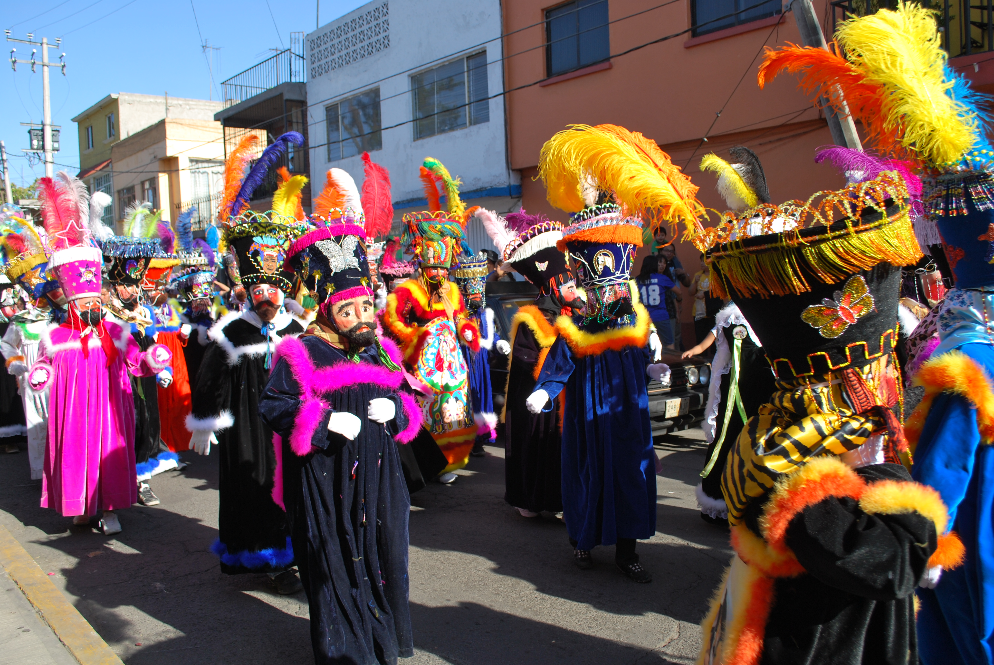 Children dressed as Chinelos as part of a procession of the Niñopa on 22 April 2012 in Xochimilco